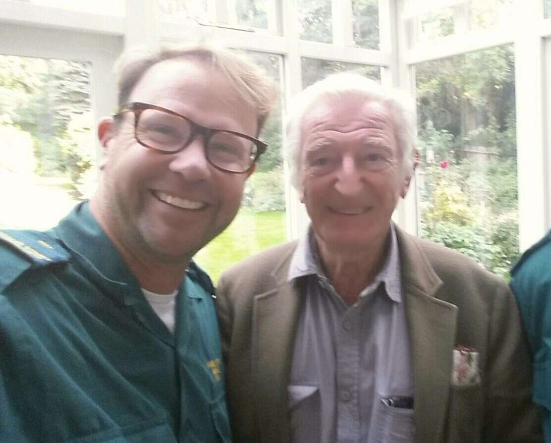 Harold Ellis on right